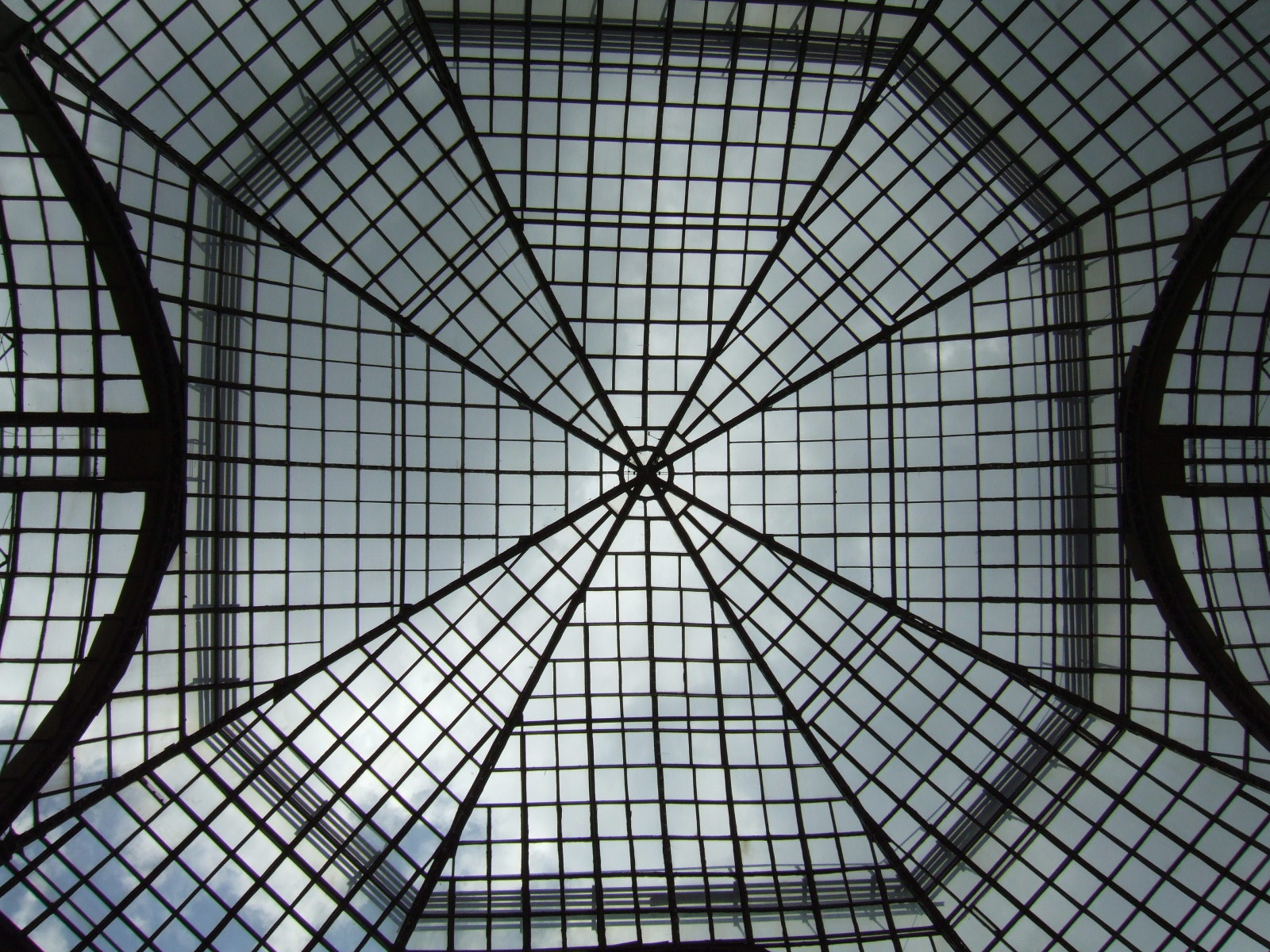 The metal structure of the transparent roof of Upper Trading Rows (Moscow GUM). Designed by Vladimir Shukhov in 1893.